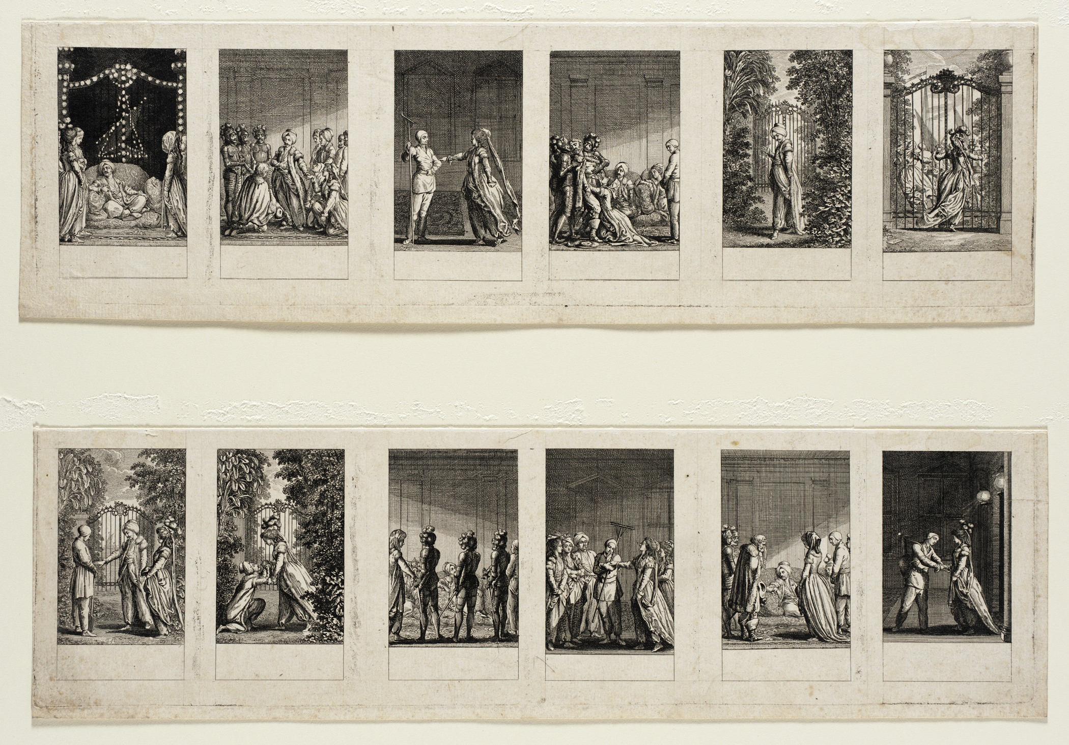 Germany, 1783 Prints; etchings Etchings Sheet: 4 3/4 x 15 3/8 in. (12.07 x 39.05 cm) each; image: 3 1/2 x 2 in. (8.89 x 5.08 cm) each Gift of Mr. and Mrs. Stanley Talpis (55.102.74-.85) Prints and Drawings